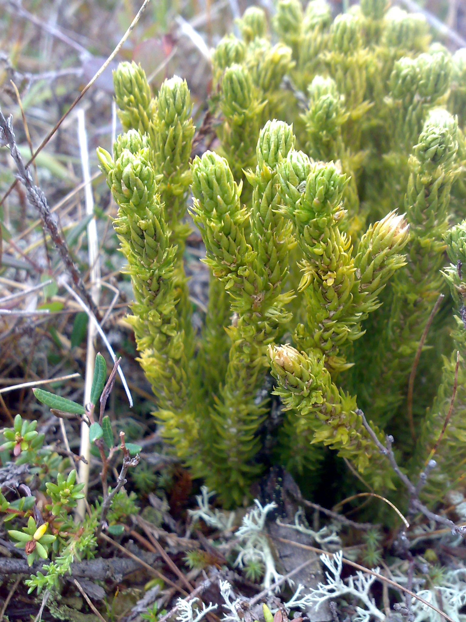 Huperzia arctica in Flaa, Buskerud (Norway). Altitude: 850 metres. Habitat: Mountain marshland.